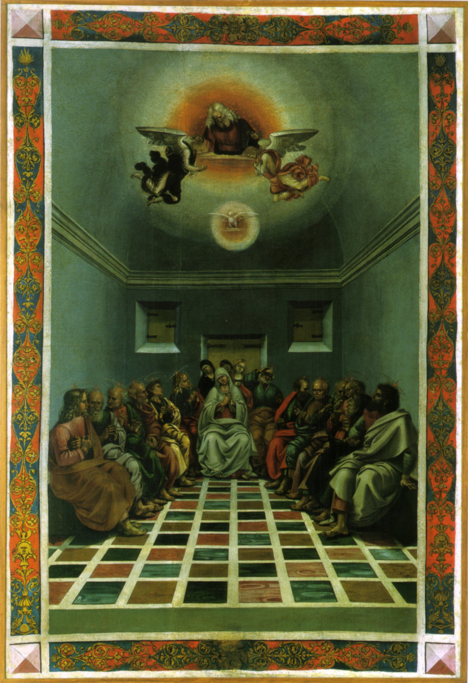 painting with two sides: Crucifixion and Pentecost